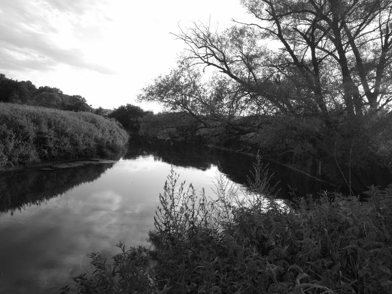 Rivermouth Blies Schwarzbach Einöd (Saar)